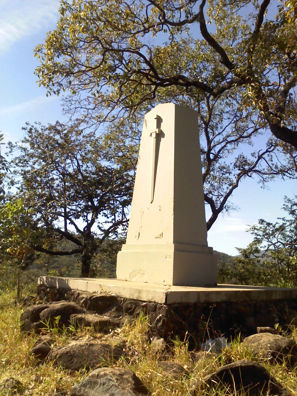 Monument to the brave of the Liberal Revolution of 1842.